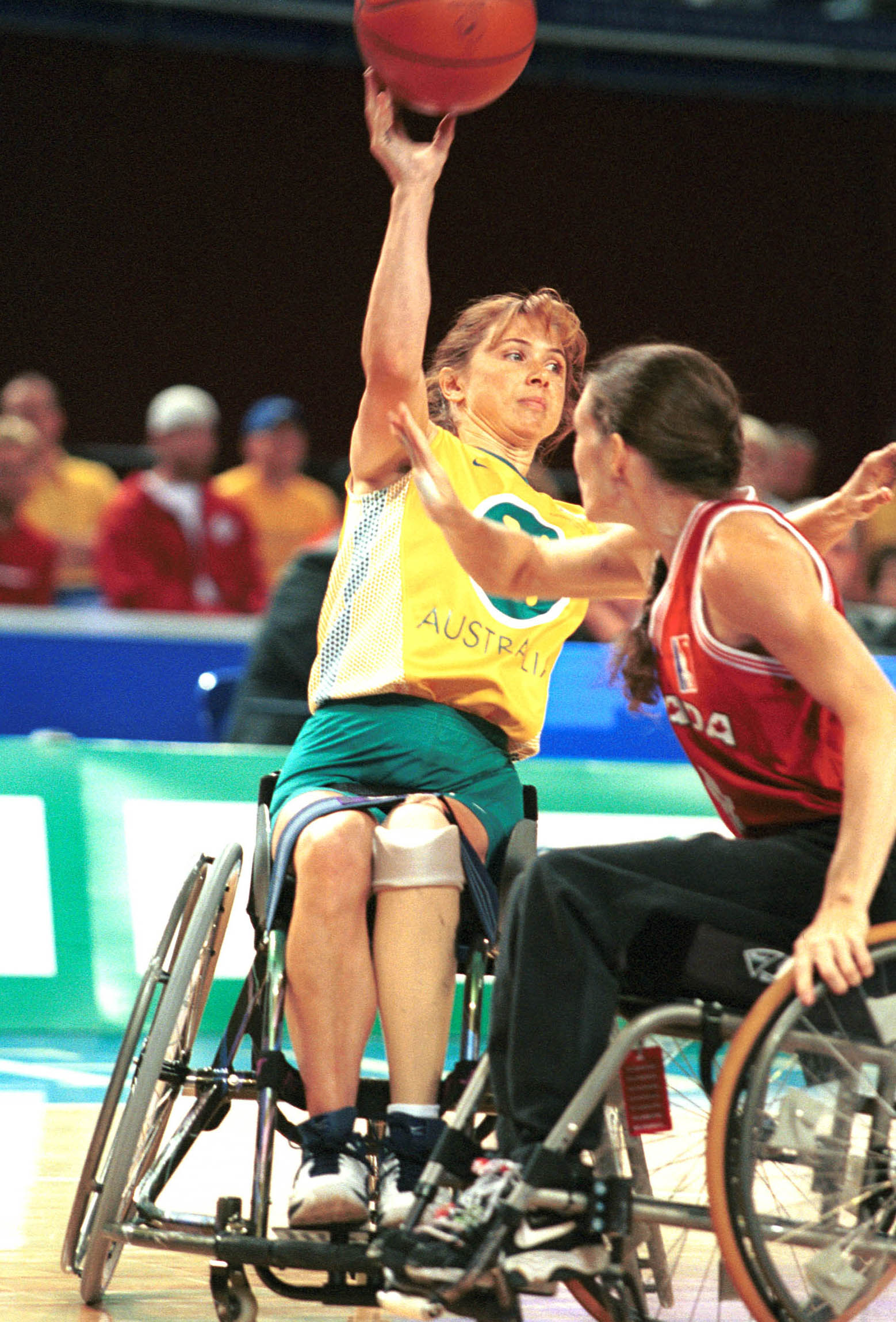 Australian wheelchair basketballer Paula Coghlan passes the ball during 2000 Sydney Paralympic Games match